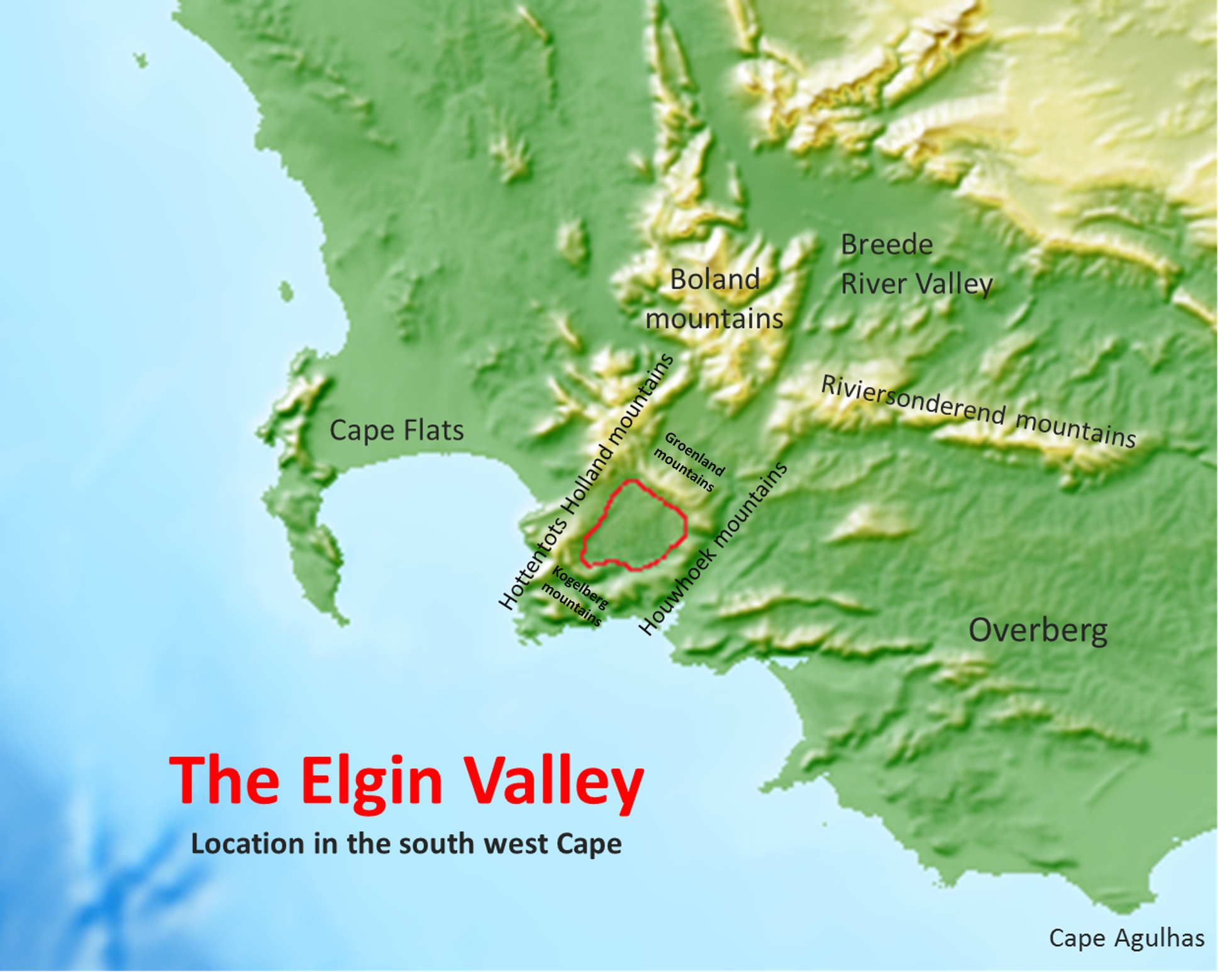 Map showing the location of the Elgin region to the east of Cape Town in the south western corner of the Western Cape South Africa